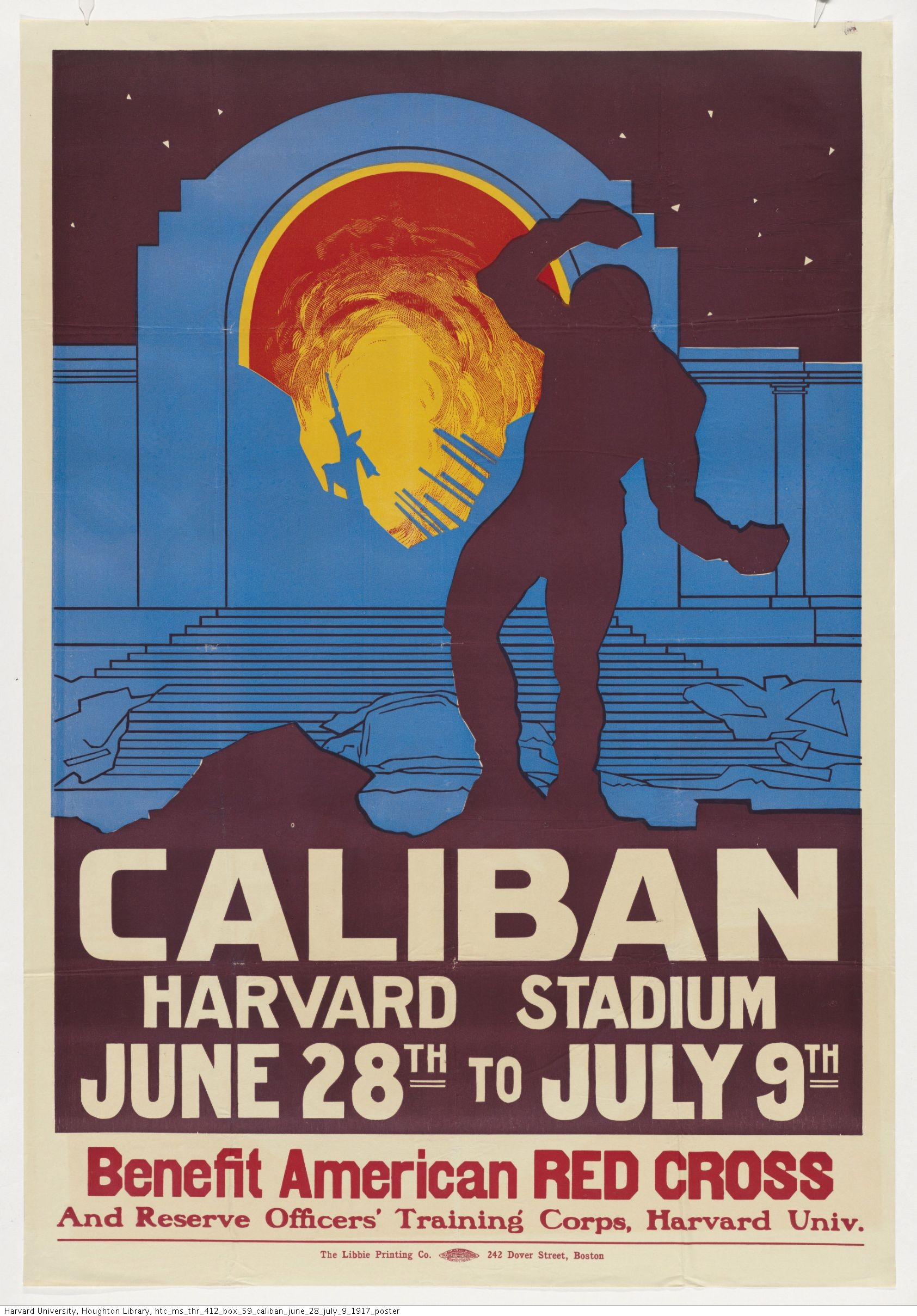 Poster for Caliban at Harvard Stadium June 28th to July 9th [1917]. [ MS Thr 412, Harvard Theatre Collection, Harvard University